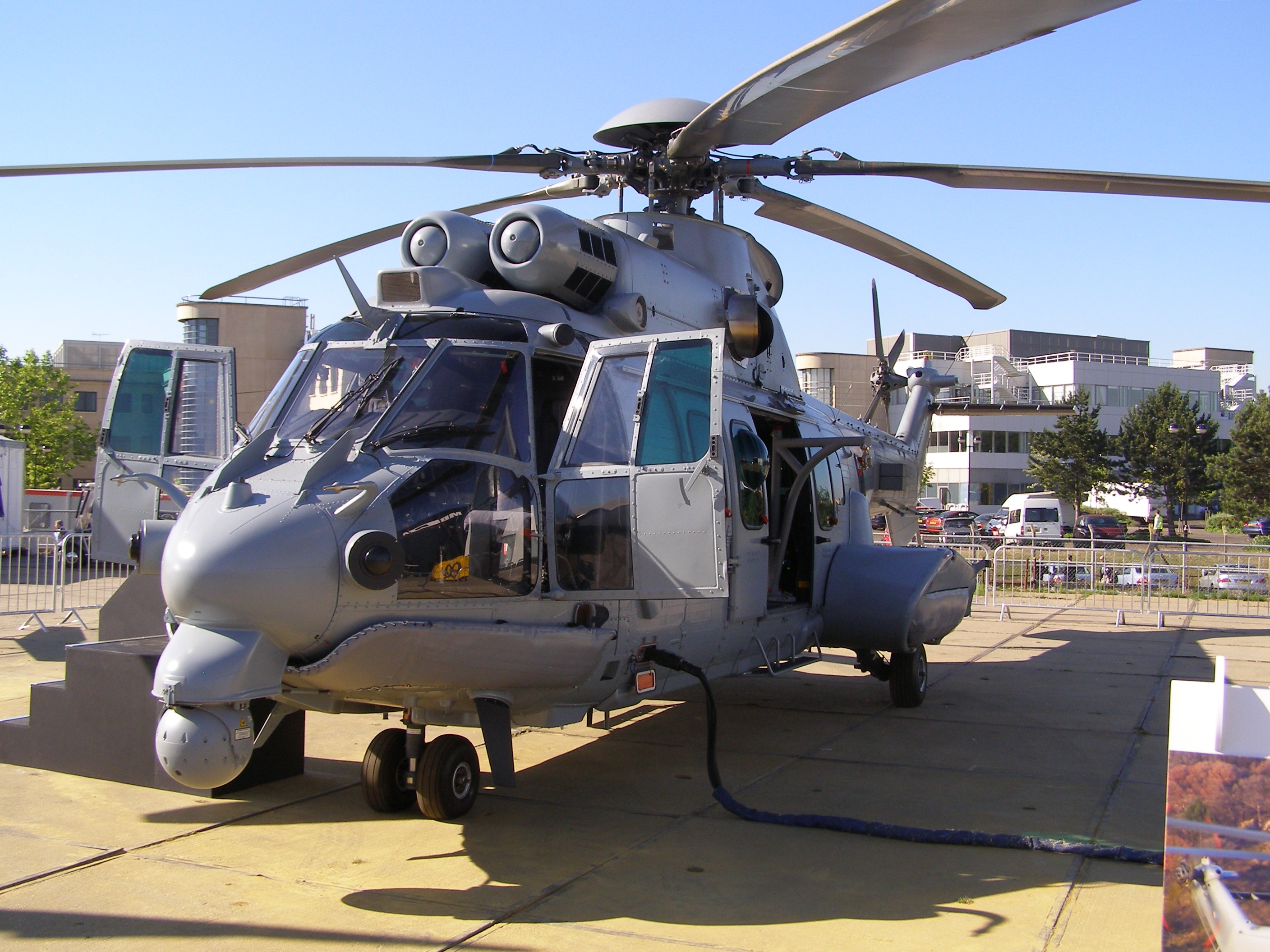 Eurocopter EC725 of the French Armée de Terre on display at Farnborough Air Show, England in July 2006 Photograph by self